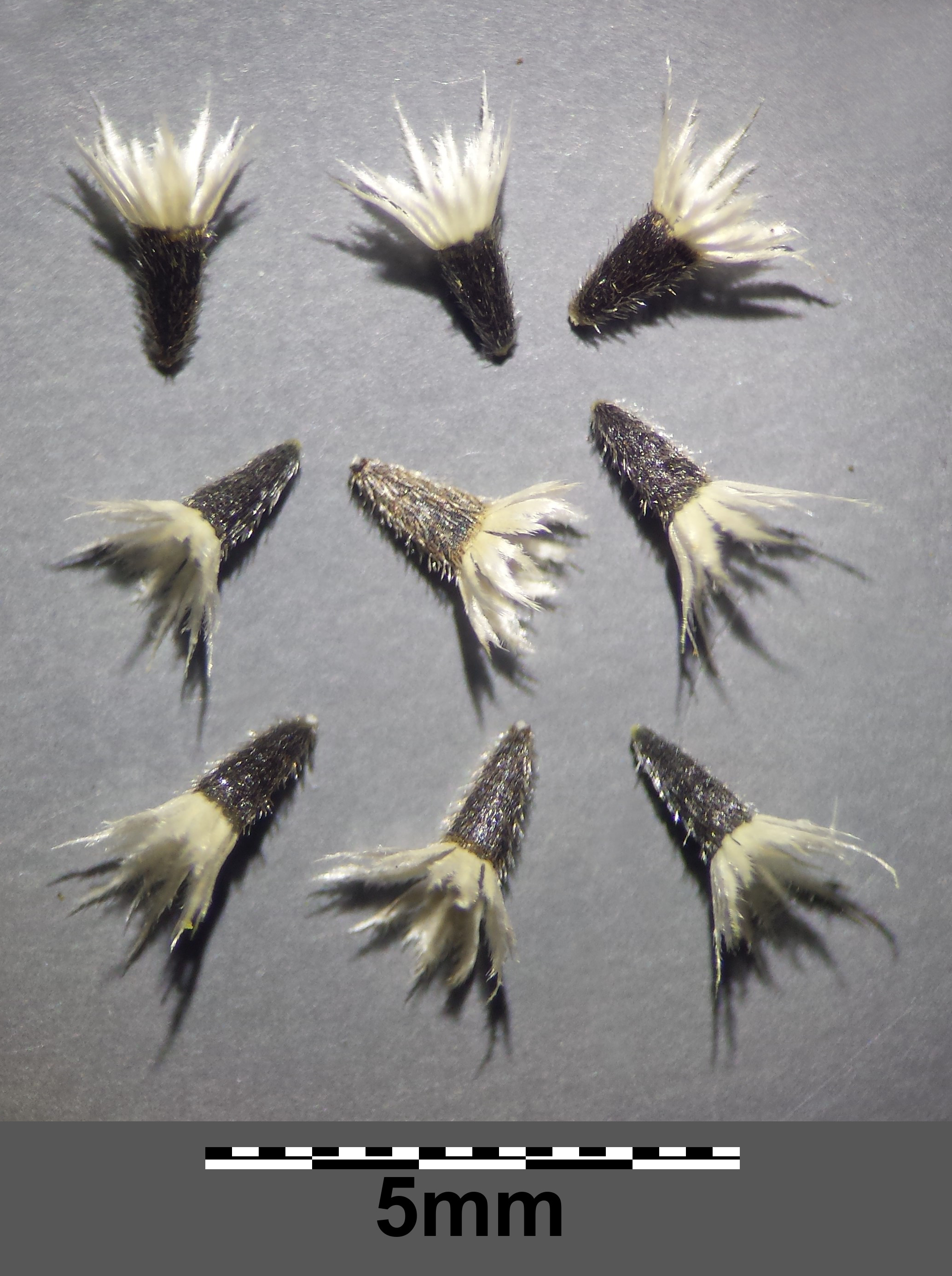 Fruits Taxonym: Galinsoga ciliata ss Fischer et al. EfÖLS 2008 ISBN 978-3-85474-187-9 Location: near Steinberg near Niederhollabrunn, district Korneuburg, Lower Austria - ca. 300 m a.s.l. Habitat: wine yard